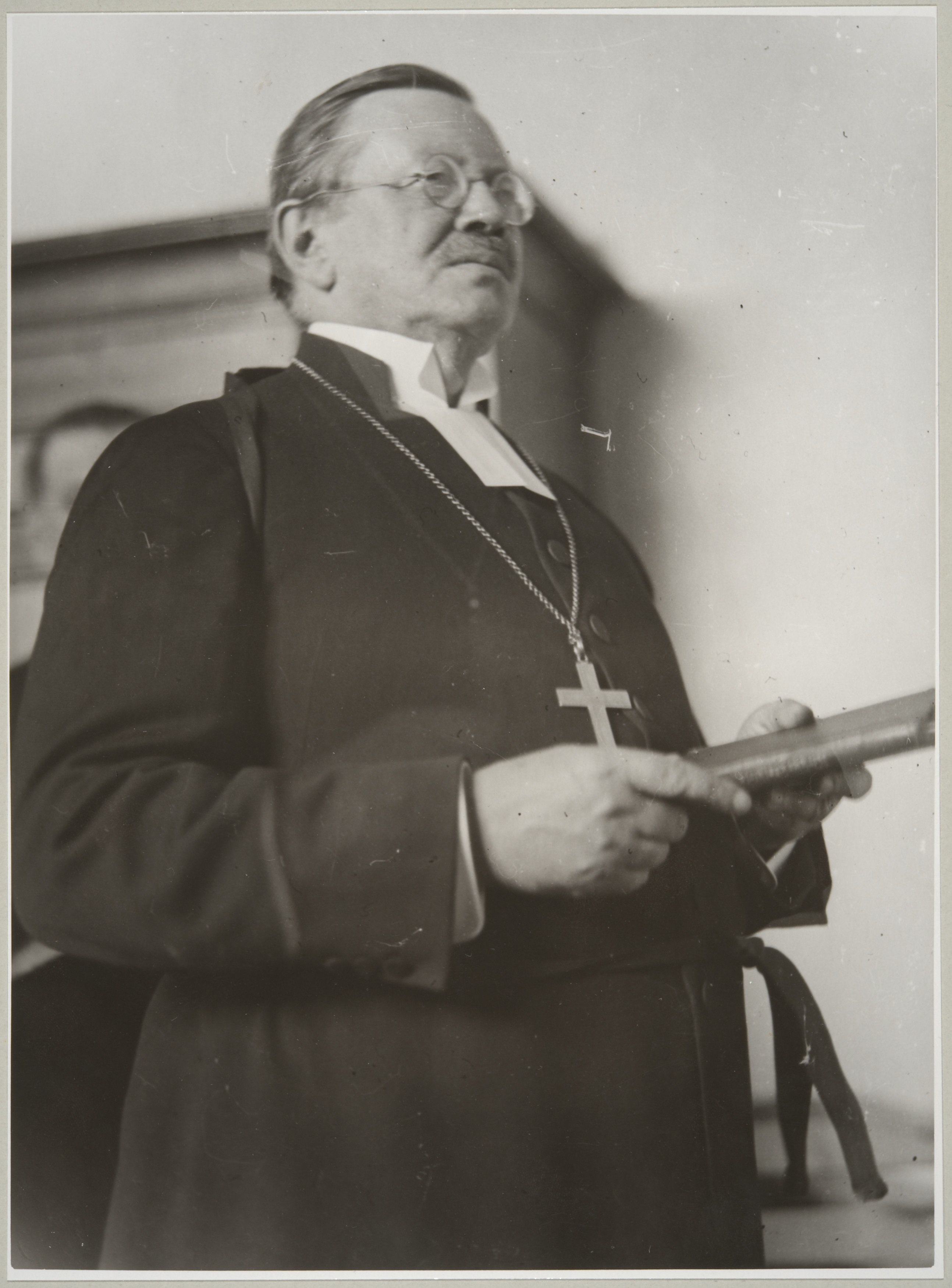 Jaakko Gummerus (1870–1933), Bishop of Tampere.